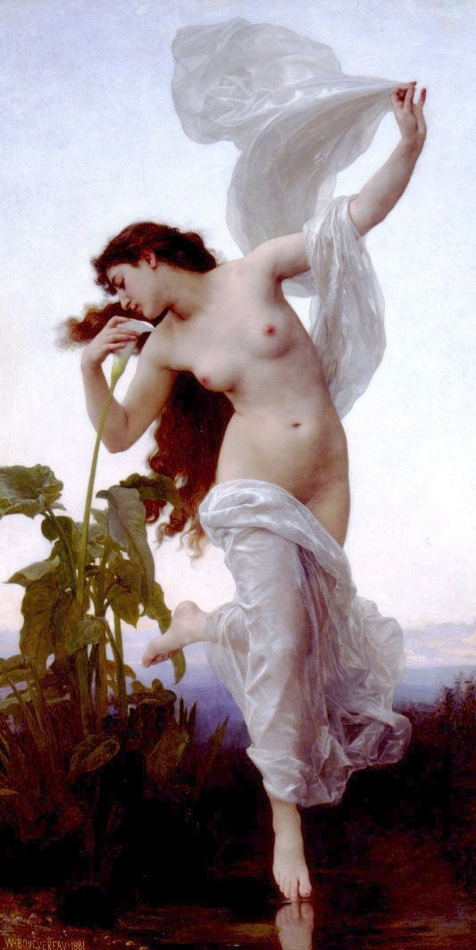 eos-william